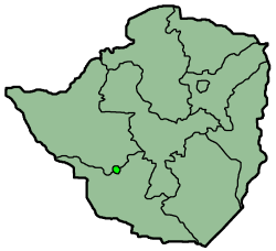 Map of the Bulawayo Province in Zimbabwe; Created with the GIMP